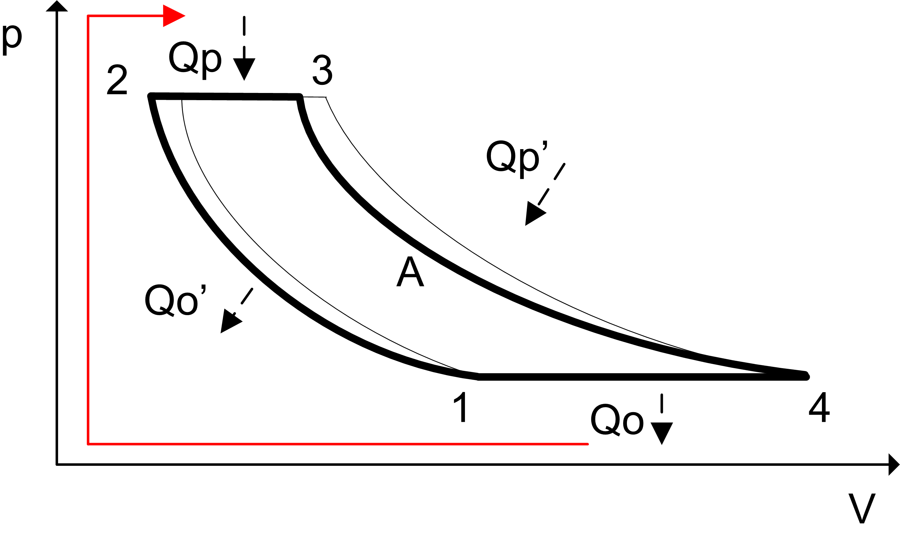 Joule-Brayton cycle with heat regeneration in p-V diagram.